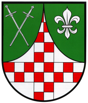 Coat of arms of Peterswald-Löffelscheid